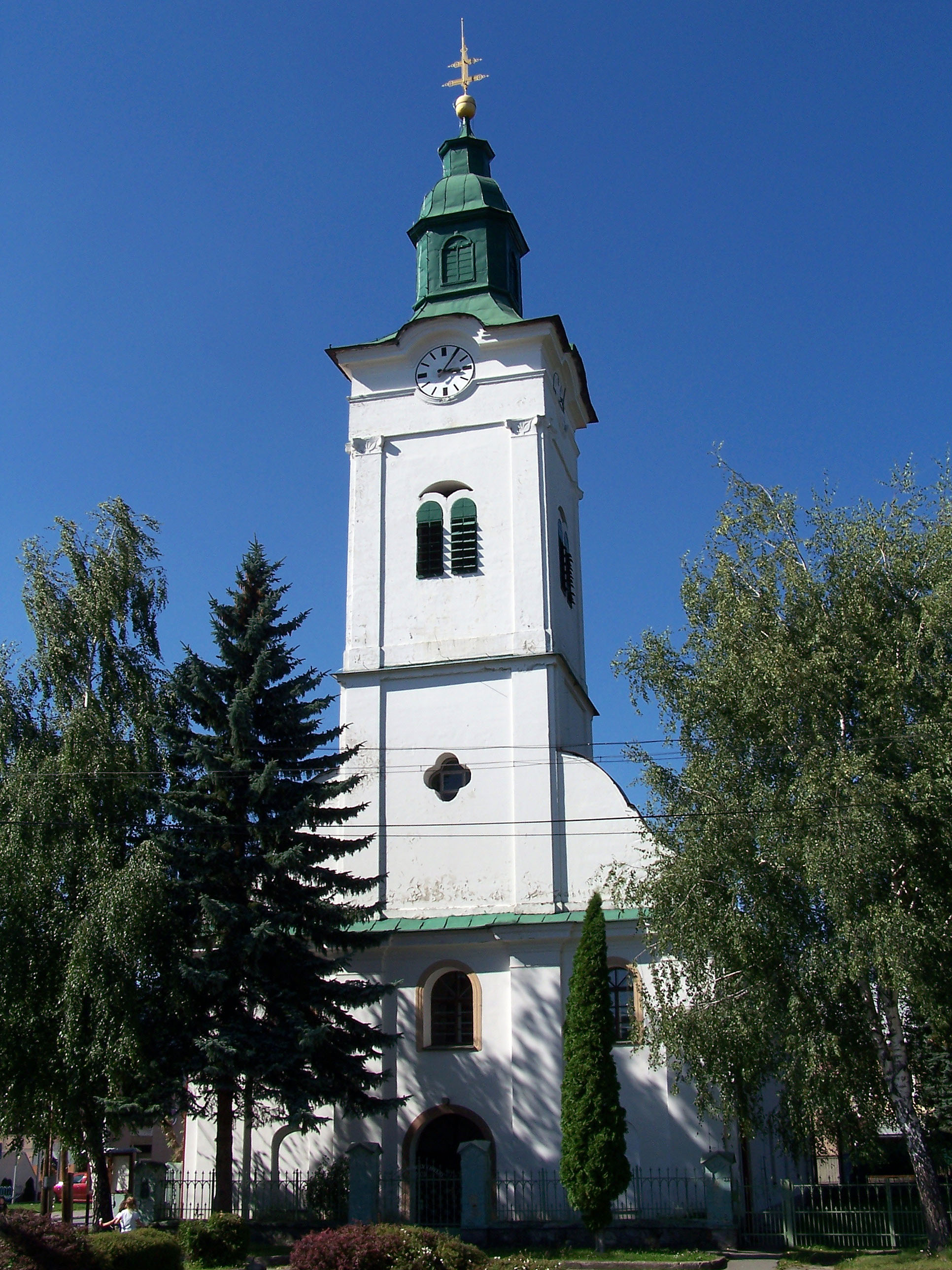 Protestant church in Sučany, Slovakia